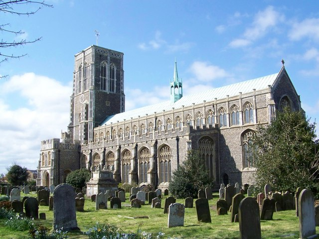 Church of St Edmund in Southwold, Suffolk, England. A Grade I listed medieval church.